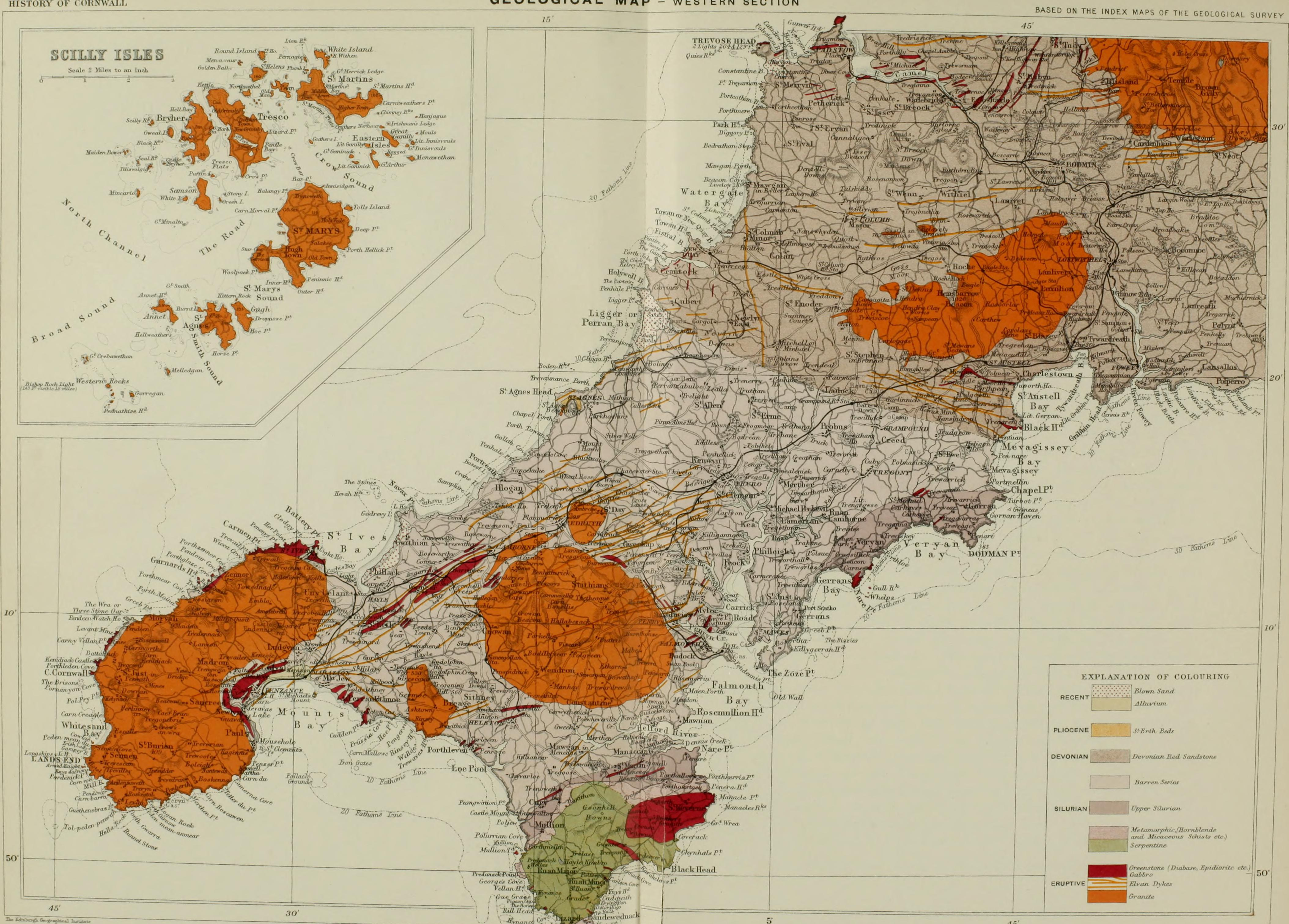 Title: The Victoria history of the county of Cornwall Year: 1906 (1900s) Authors: Page, William, 1861-1934 Subjects: Natural history Publisher: London : (A. Constable and Company) Text Appearing Before Image: HISTORY OF ( UKNWAJ.I GEOLOGICAL MAP - western section BASED ON THE INDEX MAPS OF THE GEOLOGICAL SURVEV Text Appearing After Image: ^-■^^V\x^-::, - Mlntao* S»«r.,ta,J ^.tian. SCALt 4 HILCS TO AH INCH era I J^etumarphii\(Jlornhitrntle If^Wf/u&7/i« (Diabtxst^ Epidiontif etc.)1 Gabbro wGramle 46 J &Sn^iAaB«v * rORIA HISTORY OF THE COUNTIES OF ENGLAND GEOLOGY THE county of Cornwall, jutting out to the western seas as along spur, forms part of a narrowing promontory that culmin-ates in a claw, the extremities of which, known as the LandsEnd and the Lizard, constitute respectively the most westerlyand southerly confines of Britain ; while the Scillies, yet further to thesouth-west, stand out of the Atlantic as its islet prolongation. Its extensive seaboard, forming a line of bold cliffs facing the seas ofthe Bristol and English Channels, and exposed to the full fury of theAtlantic breakers, presents a coastal scenery unique amongst the Englishcounties ; while its extreme western walls, which overlook the Atlantic,exhibit a beauty and grandeur that attract alike the lover of the pic-turesque and the student